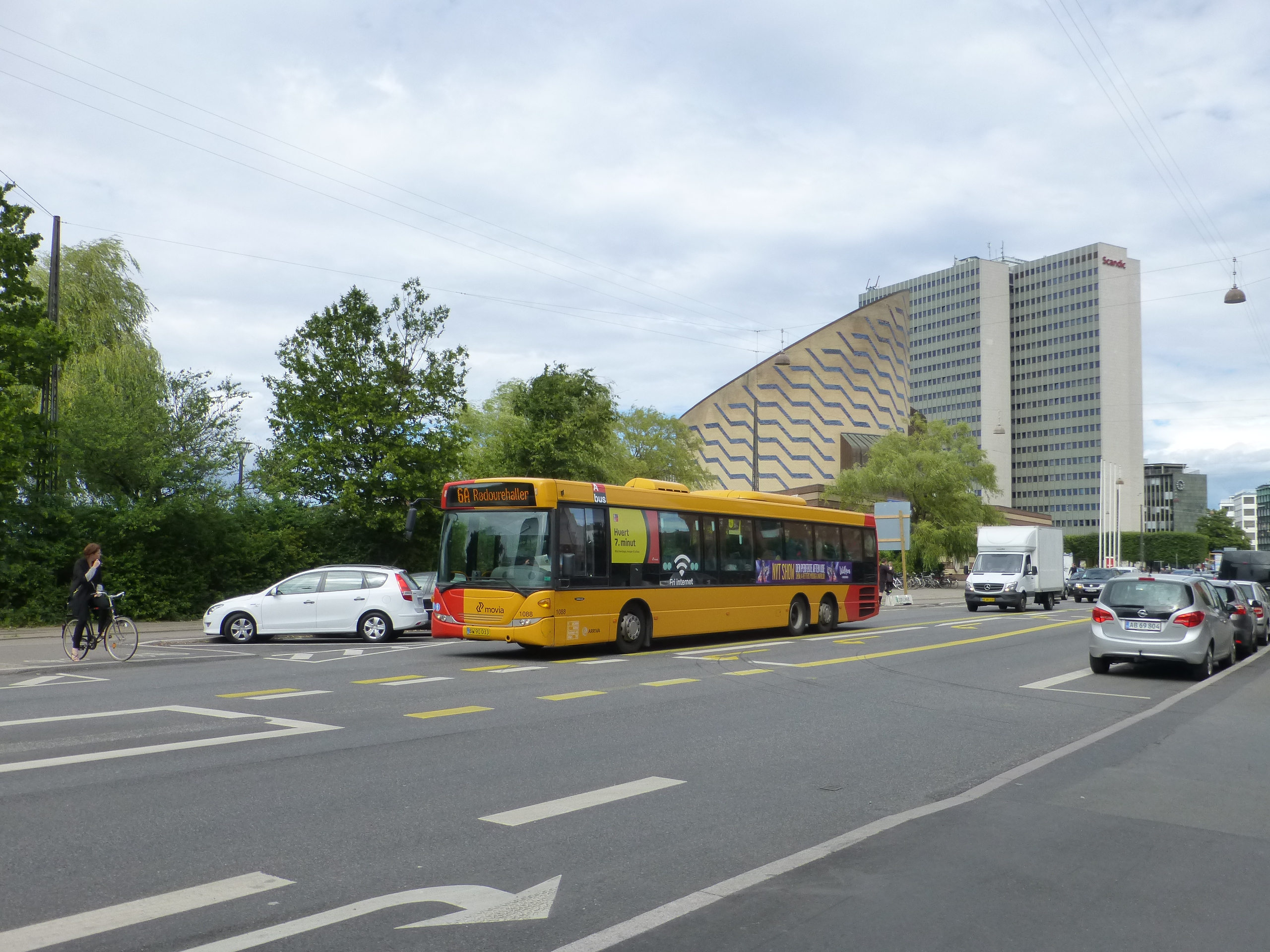 Movia bus line 6A on Gammel Kongevej at Tycho Brahe Planetarium in Vesterbro in Copenhagen. The line usually don't go this way but a part of Vesterbrogade was turned one-way against Indre By for a few months so the buses the other way has to use Gammel Kongevej and Bagerstræde instead.